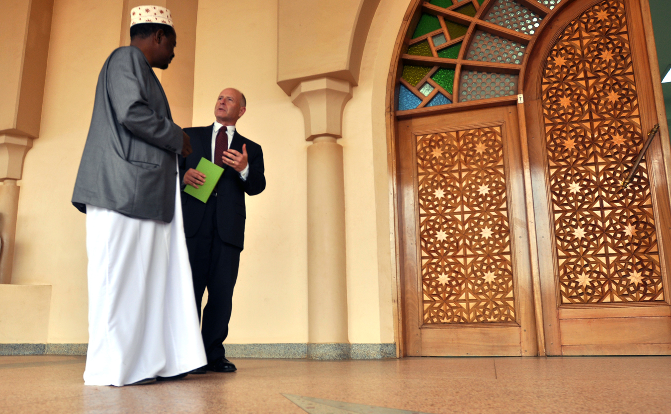 Combined Joint Task Force-Horn of Africa Chaplain and Religious Affairs Director, (U.S. Navy Capt.) Jon Cutler, tours the Kampala Gaddafi Mosque with a member of the Uganda Muslim Supreme Council, June 2, 2011. Photo by Lt. Col. Leslie Pratt To learn more about U.S. Army Africa visit our official website at Official Twitter Feed: Official Vimeo video channel: Join the U.S. Army Africa conversation on Facebook